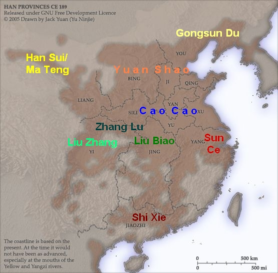 map showing the places of China's Warlord on the eve of the Three Kingdoms period.